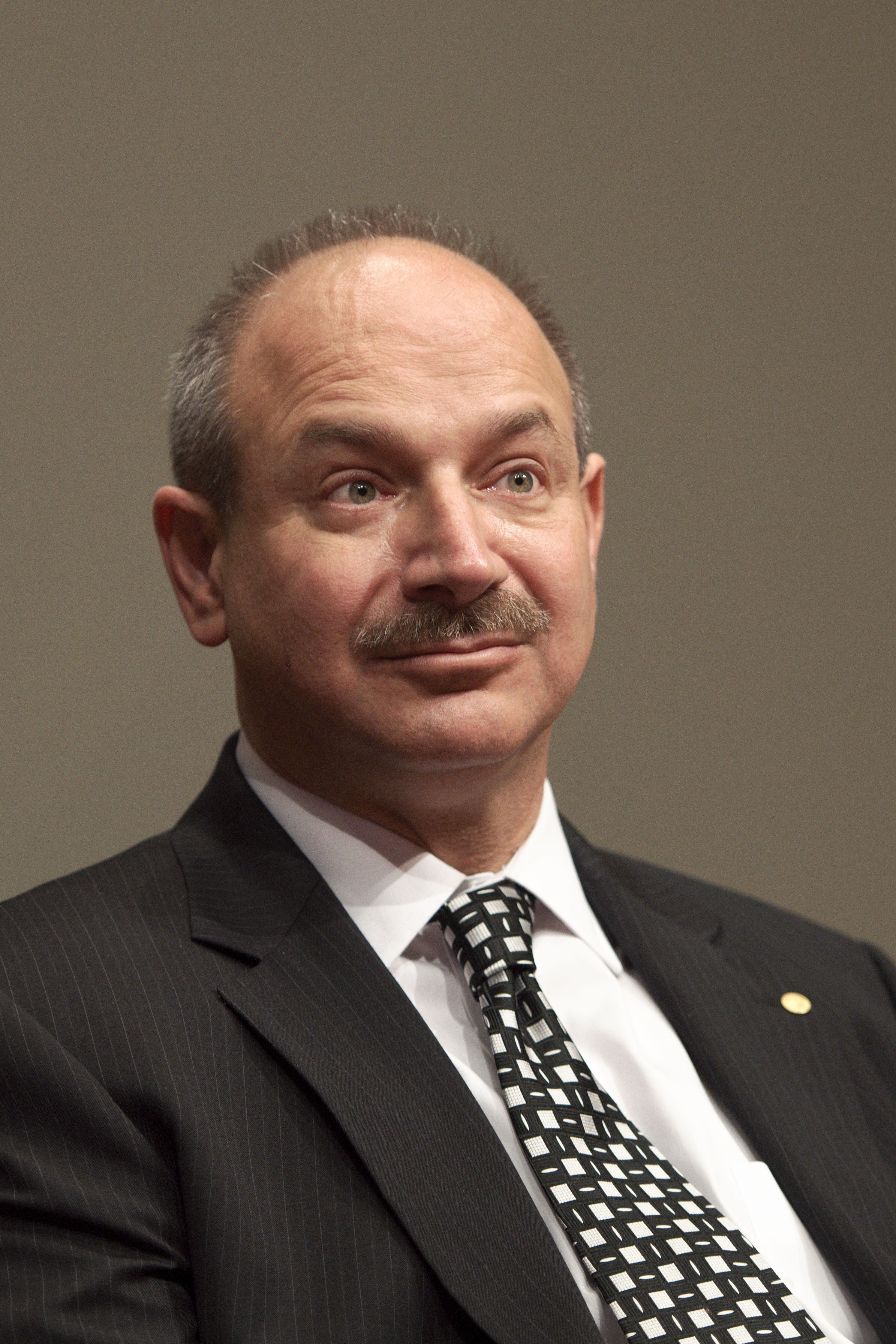 Nobel Prize 2011, press conference with the laureates of the Nobel prize in Physiology or Medicine: Bruce Beutler.